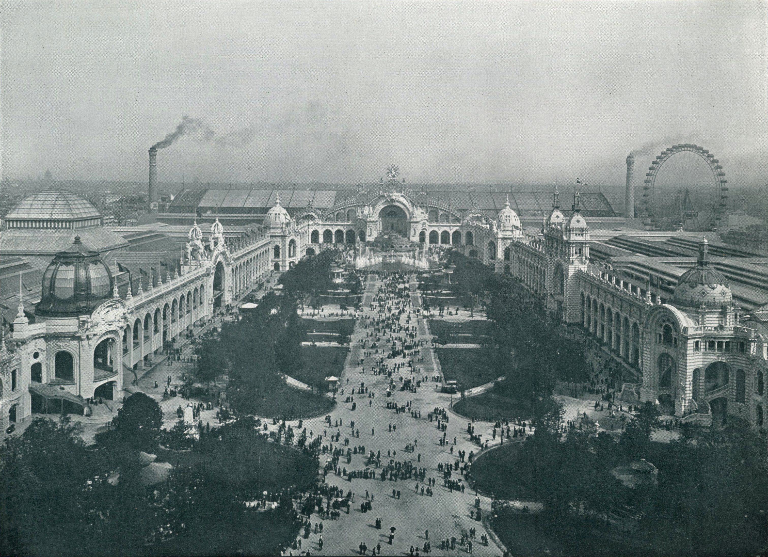 View of the Champ de Mars from the Eiffel Tower, during the 1900 Paris World Fair. The buildings on each side of the photograph contained exhibits featuring the agriculture and the industry. The building in the center housed a reception hall.